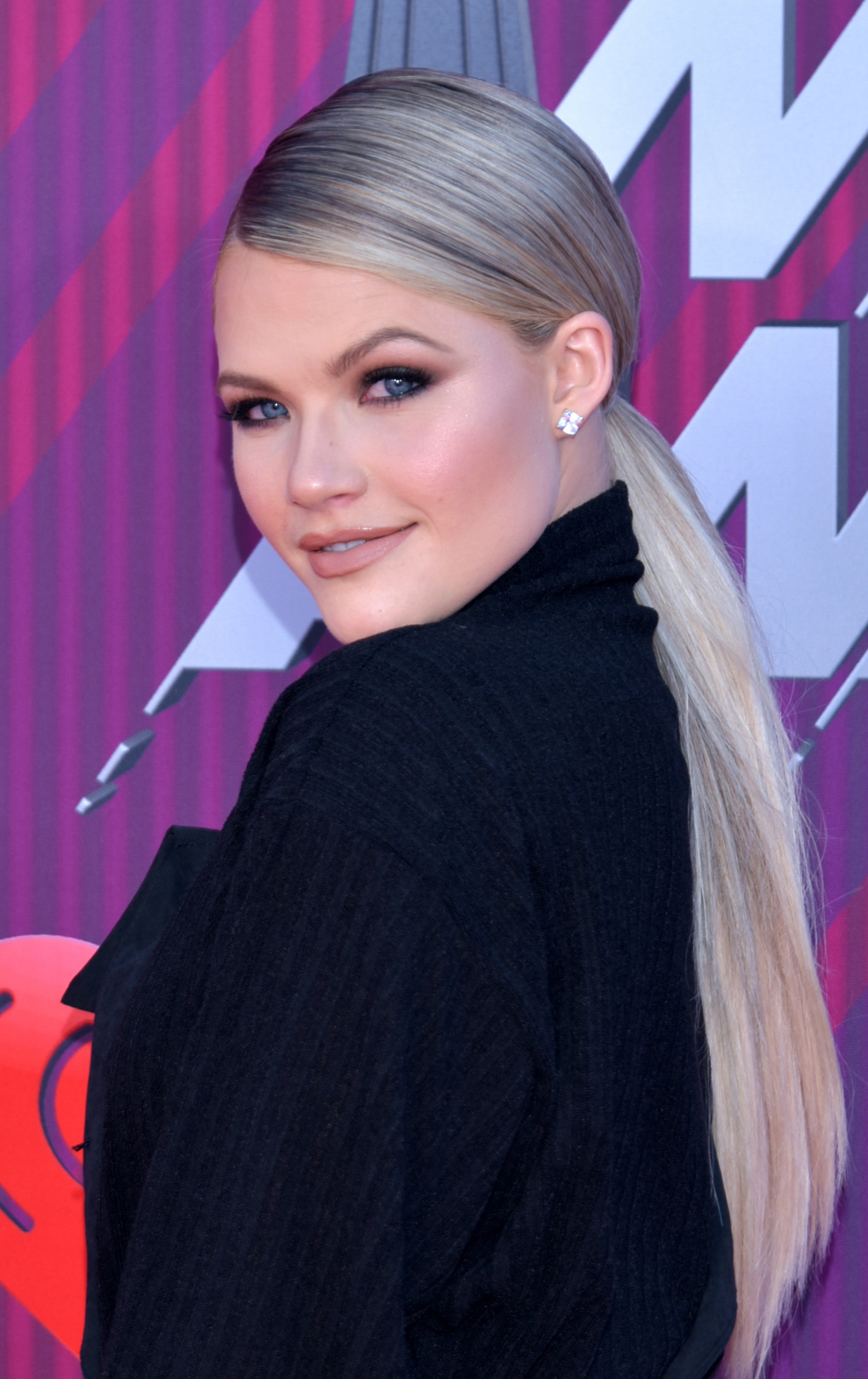 Witney Carson at the 2019 iHeartRadio Music Awards in Los Angeles California on March 14, 2019 - Photo by Glenn Francis of